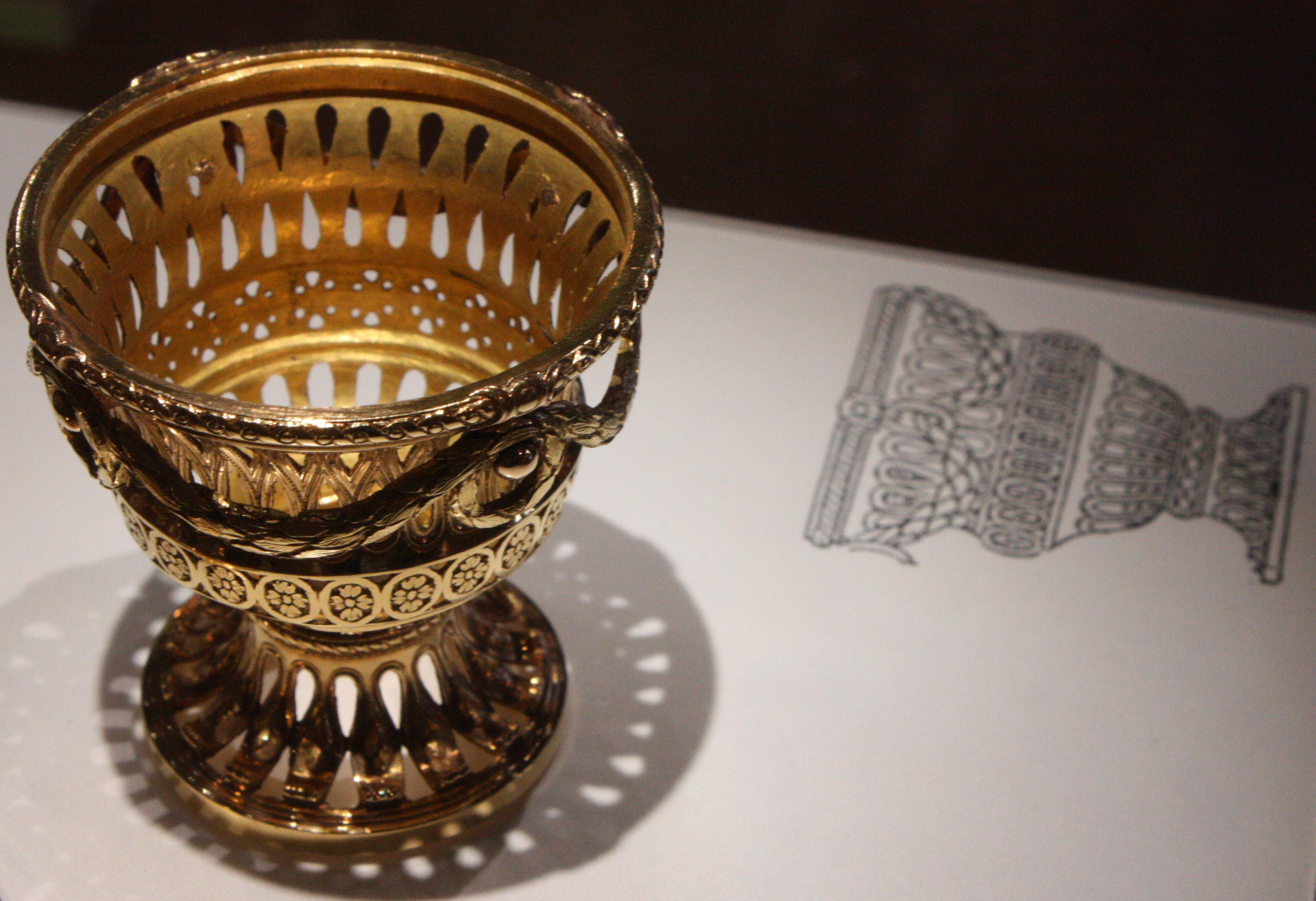 Egg Cup 1762-63 France, Paris Gold Possibly associated with the workshop of Jean Ducrollay This gold egg cup is a masterpiece of early French Neoclassical design. It is in the 'Gout-Grec' (Greek taste) fashionable in Paris in the early 1760s. Shaped like an antique vase it looks as if it has been cut from stone and is heavily ornamented with swags of laurel. The egg cup has a detachable gold liner. What appears to be the working drawing for this egg cup is in an album in the V & A's collection containing designs associated with the Parisian workshops of Pierre-Francois Drais, Charles Ouizille and Jean Ducrollay. The proportions and scale of this design are such that it could be used as easily for a large vase as it could an egg cup. Purchased with the assistance of the Murray Bequest Collection ID: M.11-2002 This photo was taken as part of Britain Loves Wikipedia in February 2010 by Valerie McGlinchey.